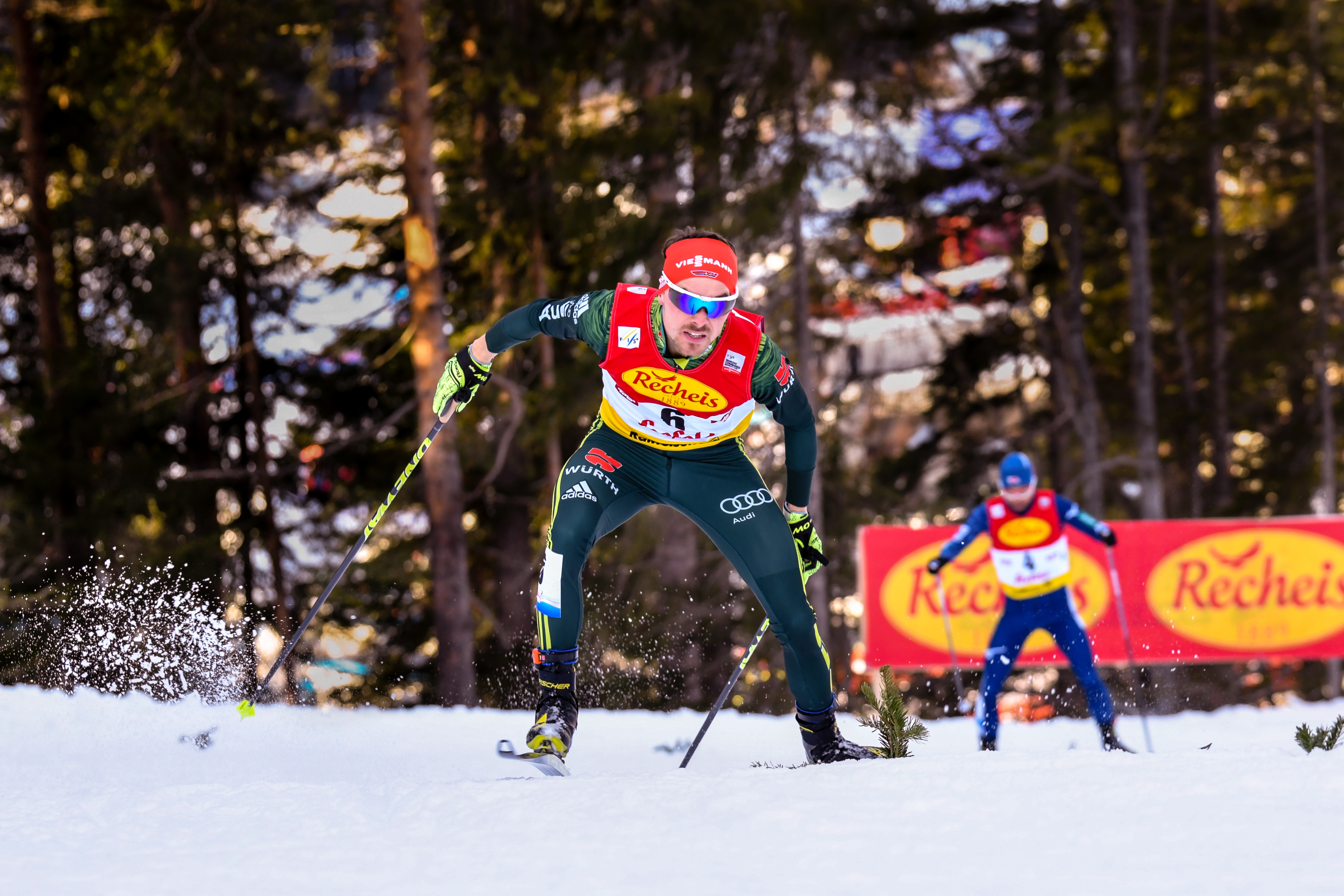 Seefeld-Triple 2018, first day January 26th. Picture shows Fabian Riessle